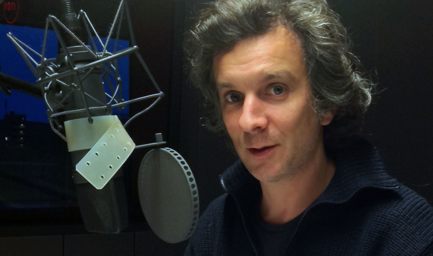 The german author, journalist and stage director Tobias Bungter, photographed in a radio studio in Cologne during a recording for the computer show at Deutschlandfunk, 2013.